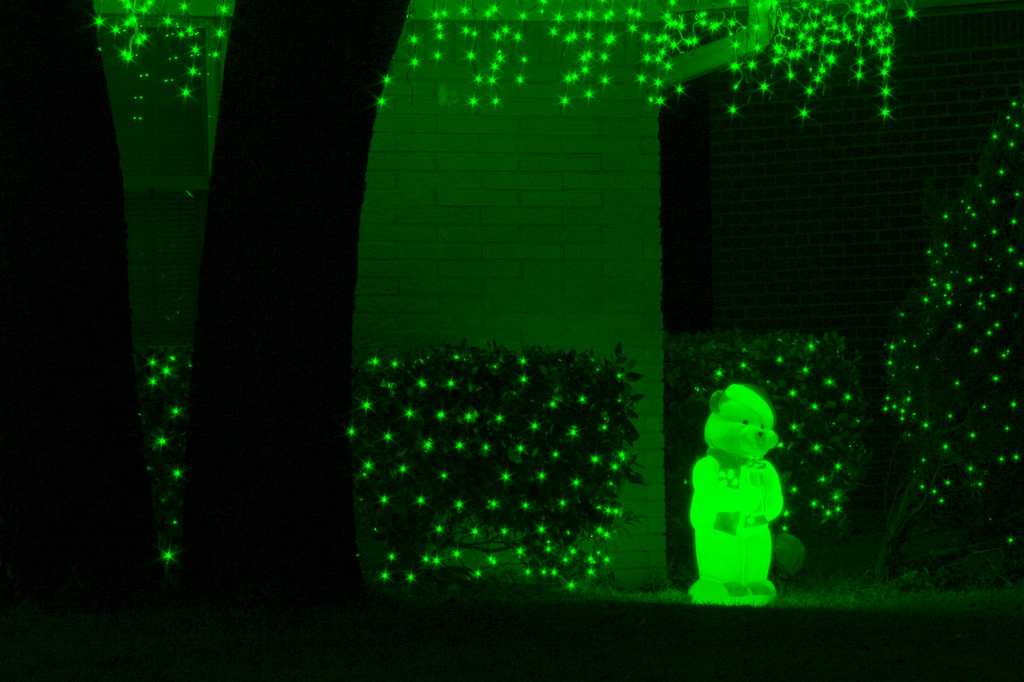 All in green and black